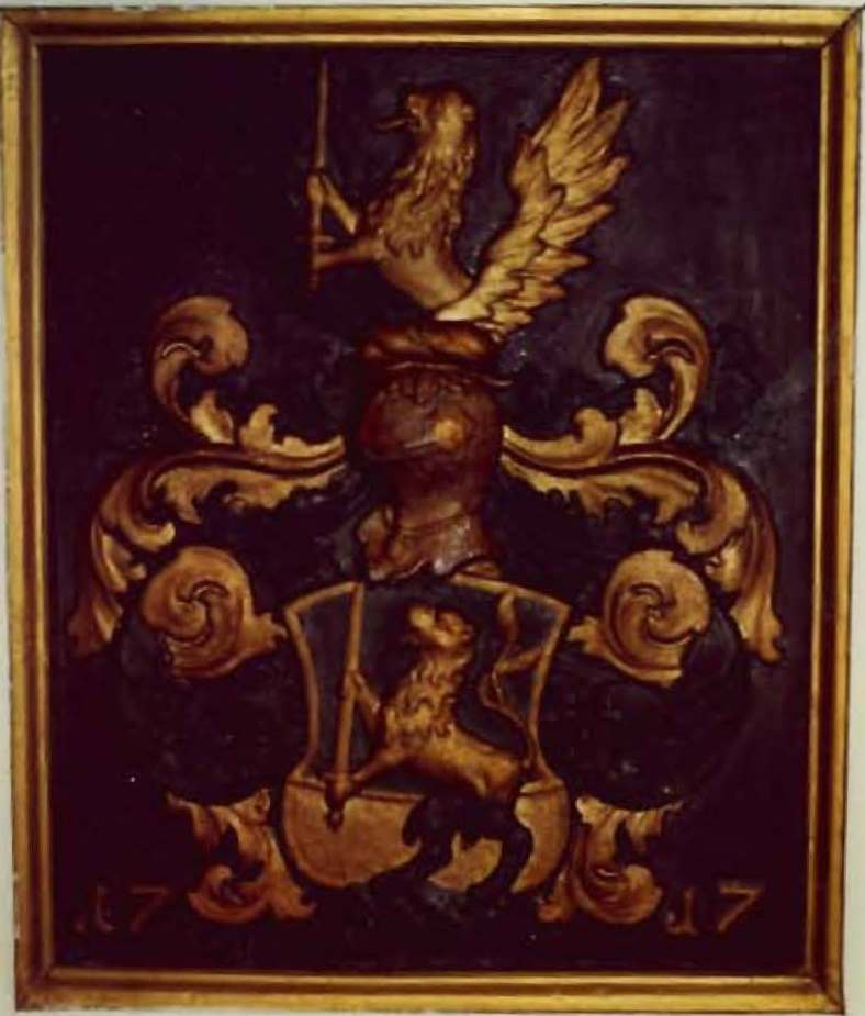 Coat of arms of Franz Xaver Schalch of 1717 in the ceiling divided into sections of the southwest living room in the first floor of the "New House" in Schelklingen